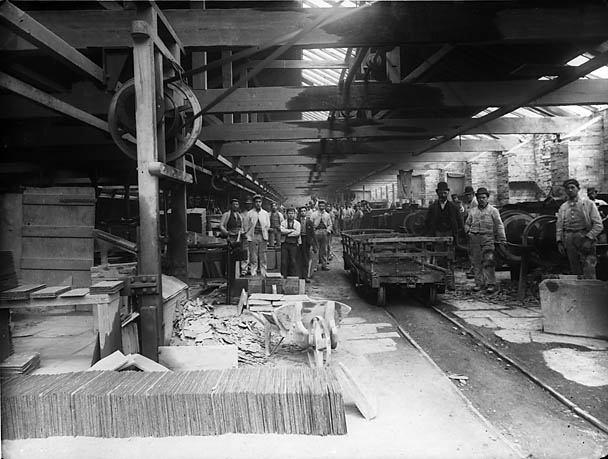 1 negative : glass, dry plate, b&w ; 16.5 x 21.5 cm.